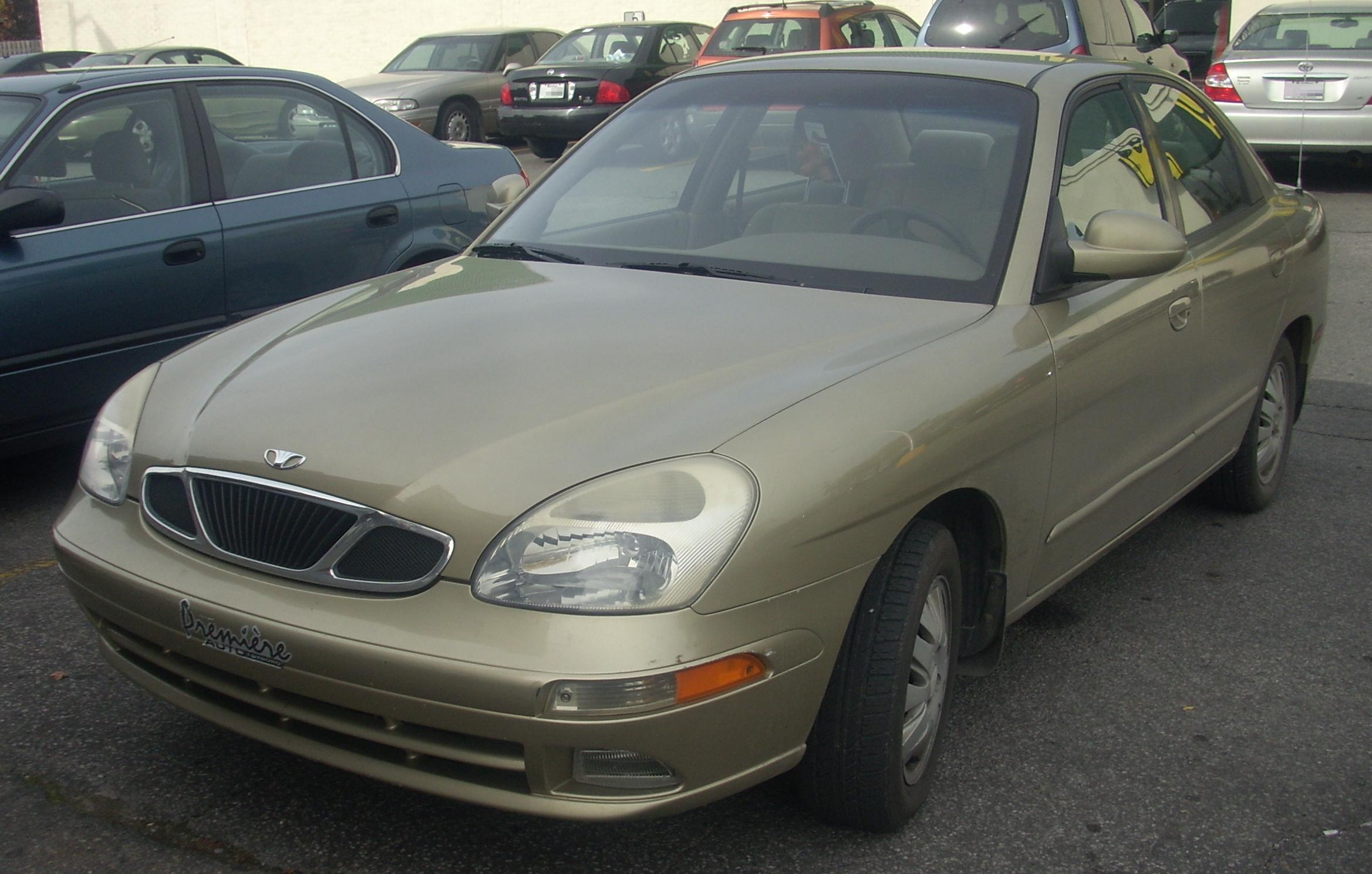 2000-2002 Daewoo Nubira photographed in Montreal, Quebec, Canada.